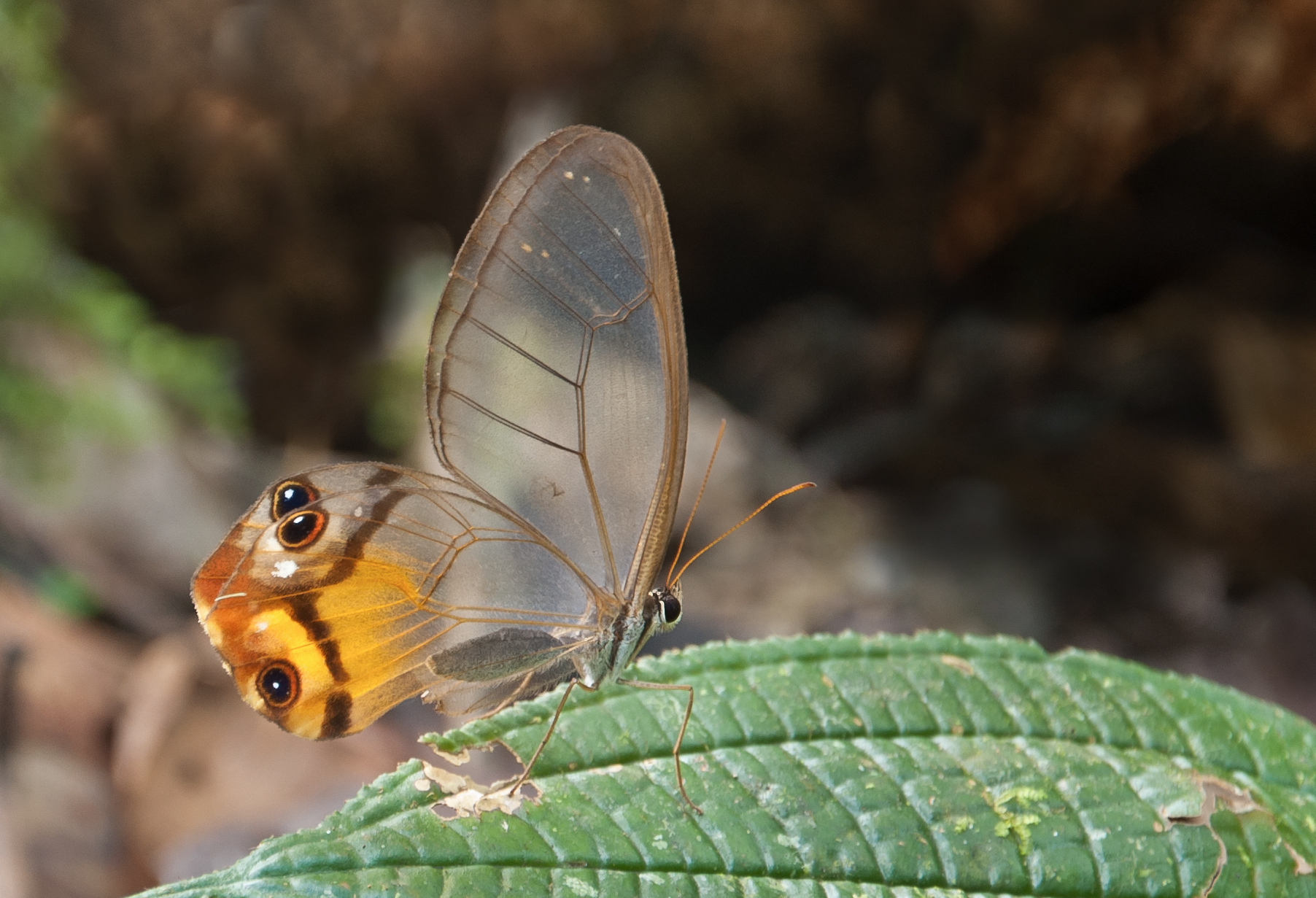 Haetera piera piera in Canaima National Park, on the base between Ptarí tepuy and Sororopán tepuy.